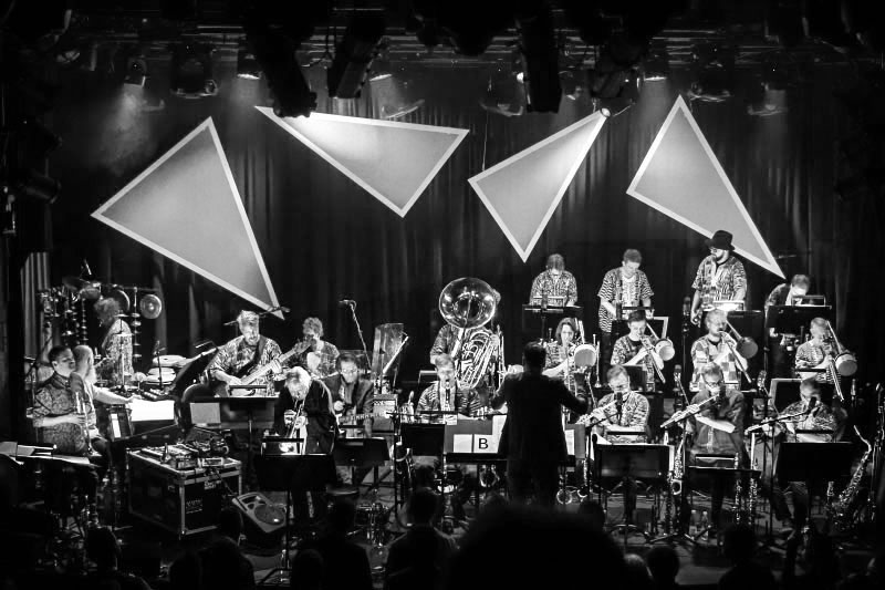 Danmark Radio Big Band featuring Palle Mikkelborg and Arve Henriksen (Aarhus 2020)